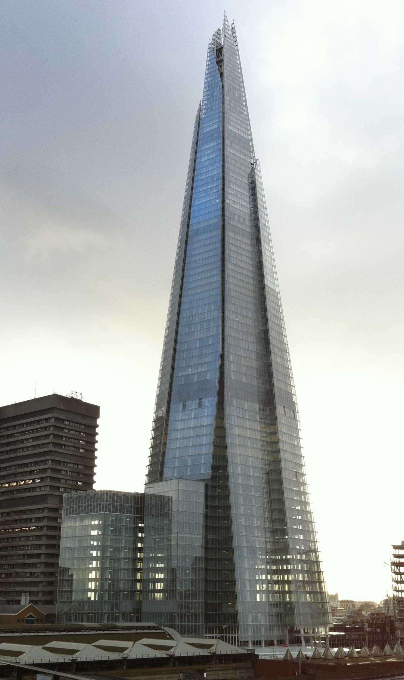 The Shard London Bridge under construction but topped out - May 2012